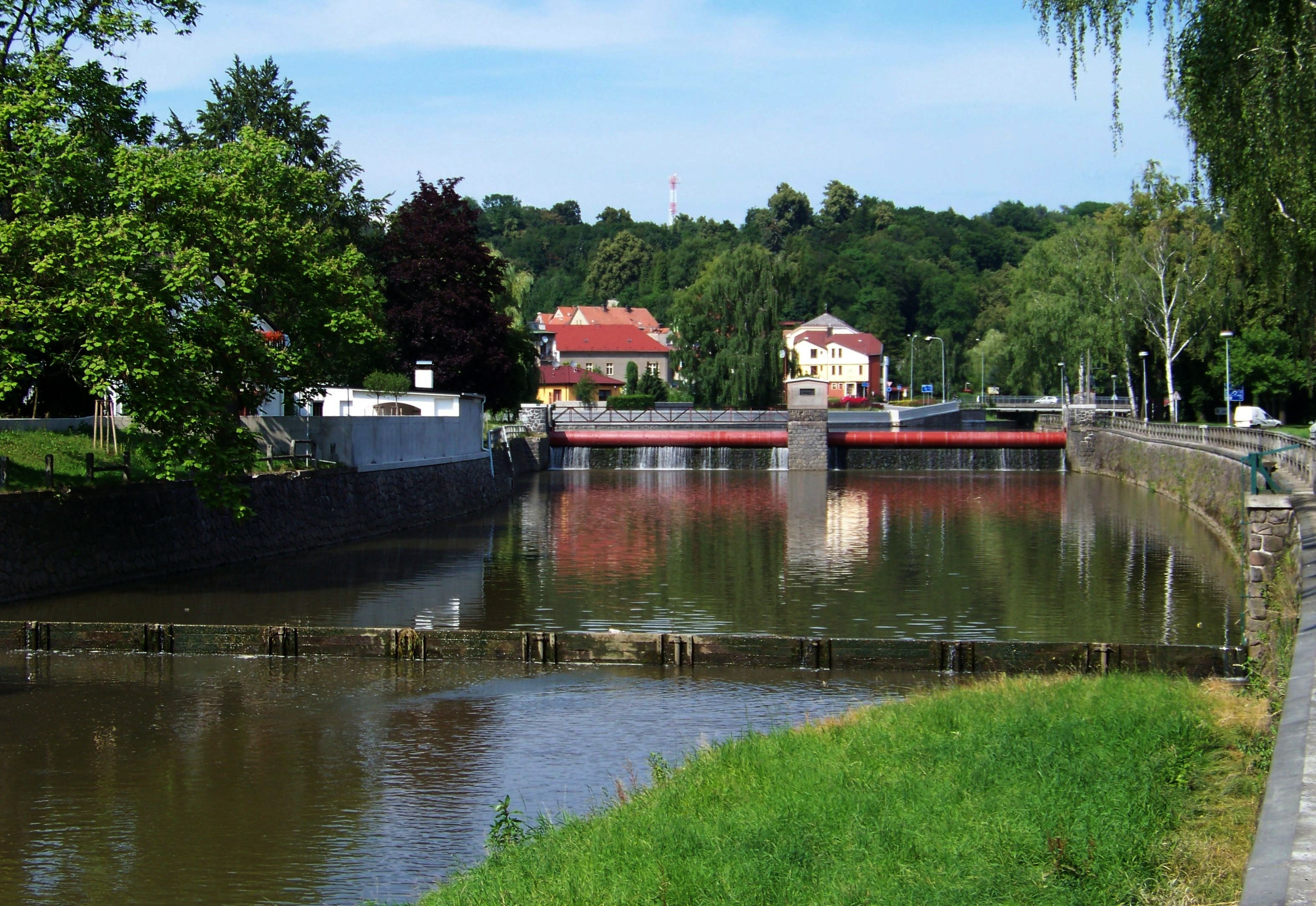 Choceň, Ústí nad Orlicí District, Pardubice Region, the Czech Republic. A weir on the Tichá Orlice river, from Pardubická street.